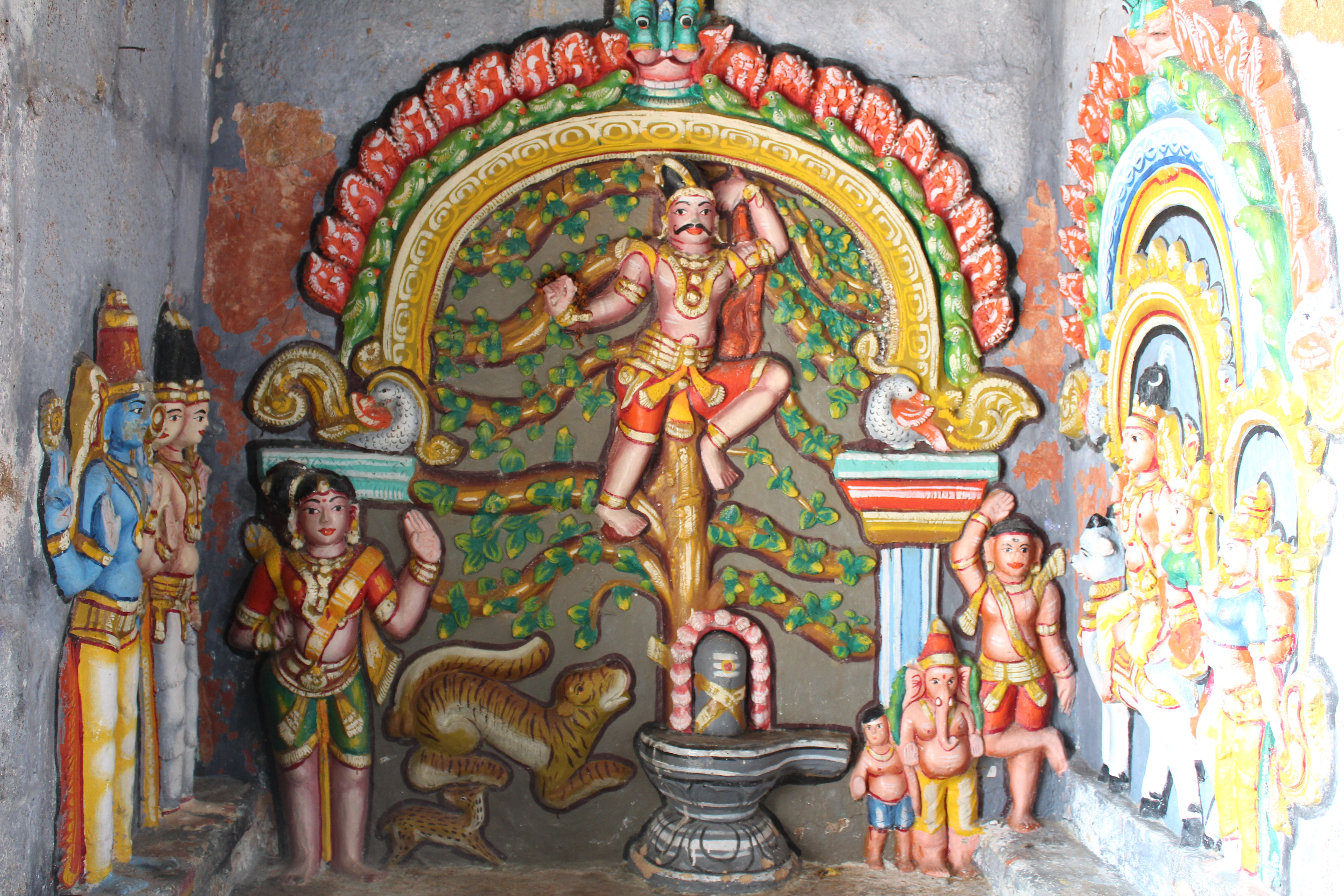 Thiruvaikavur